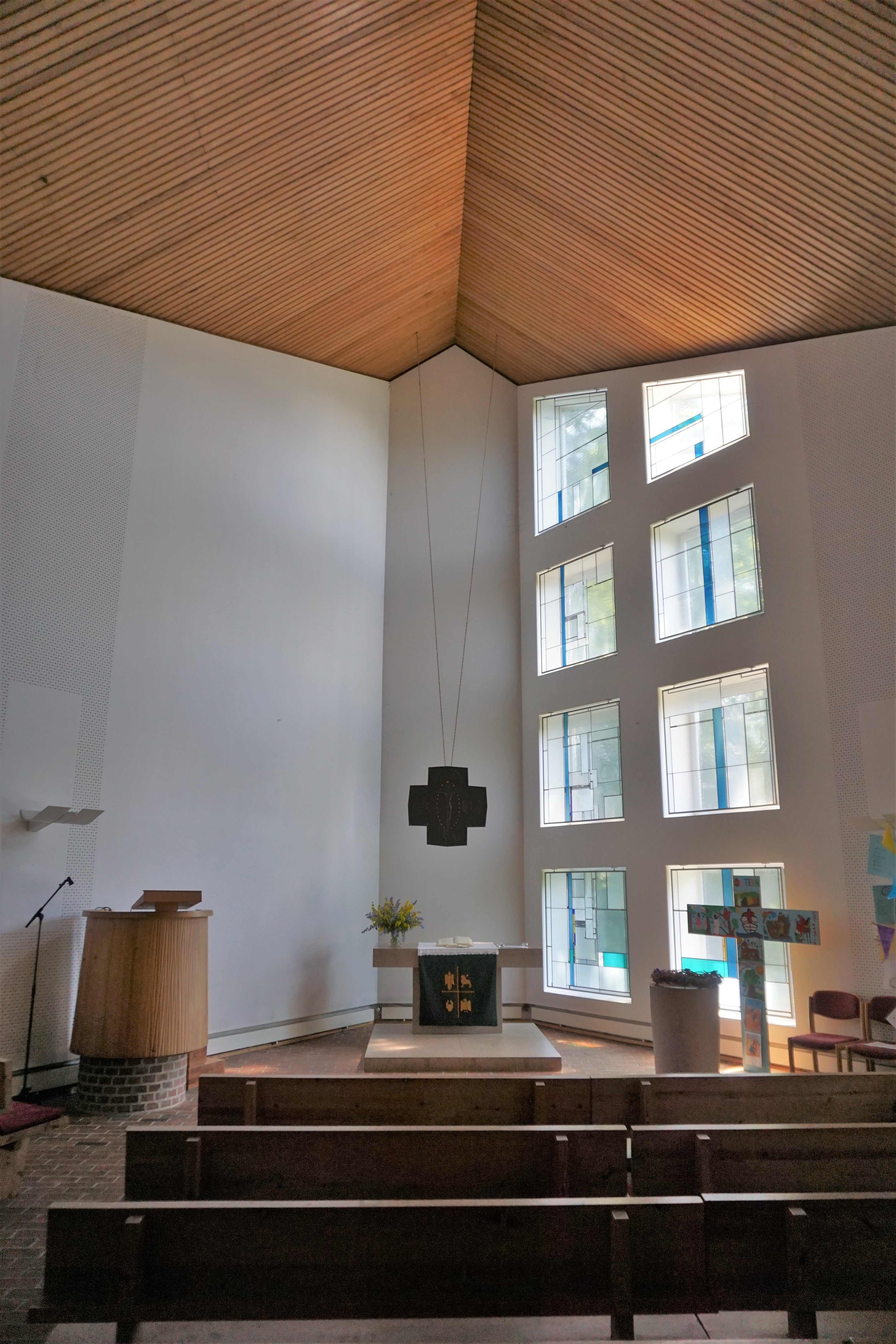 Interior of the Matthew Church in Barendorf, district of Lüneburg.